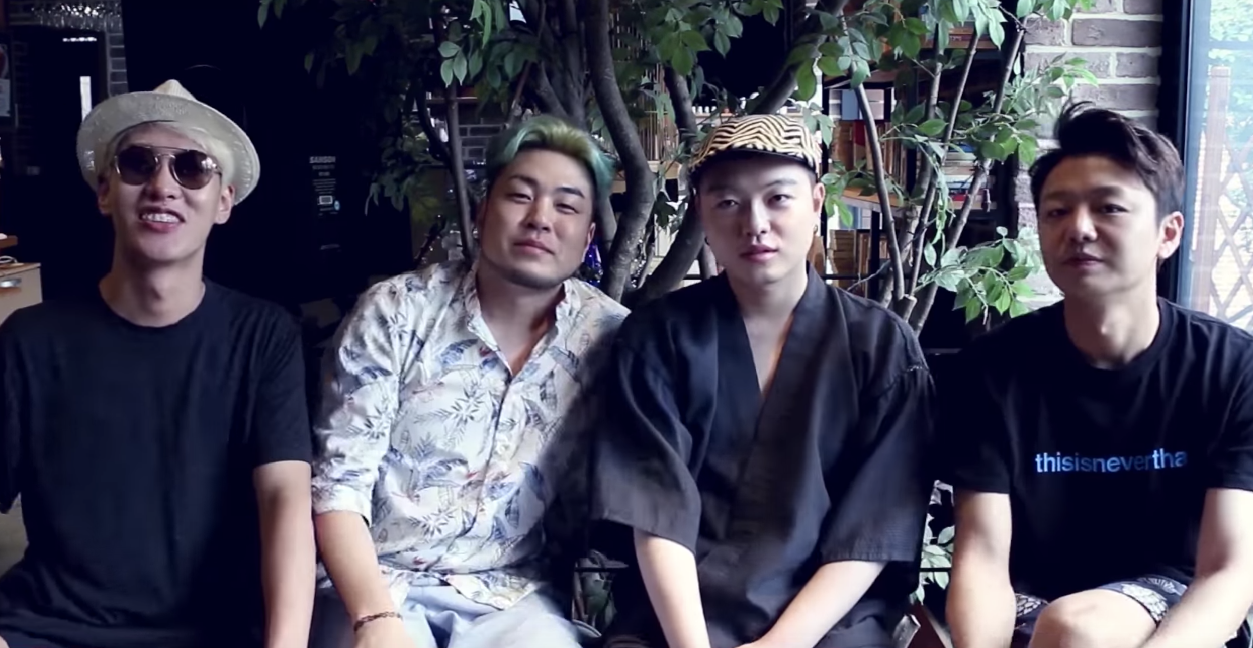 South Korean indie rock band The Koxx (칵스) in July 2017